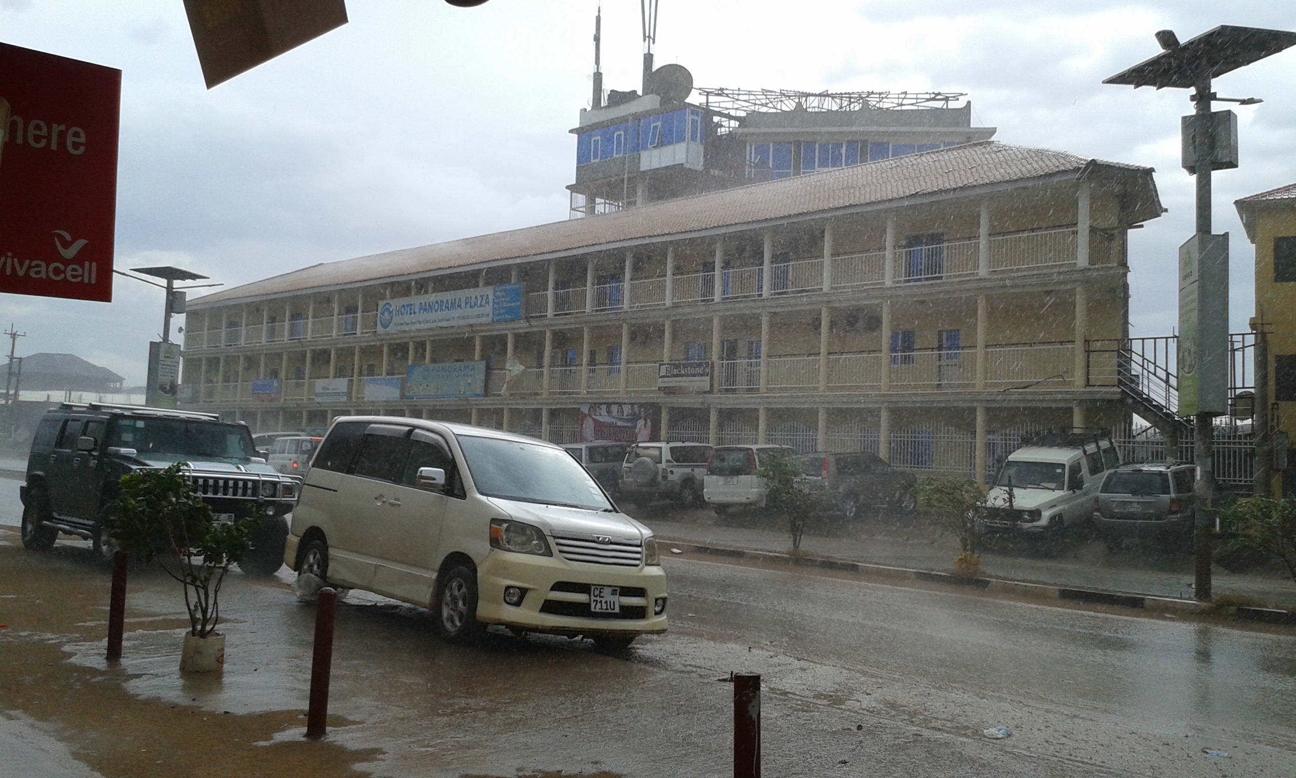 One of many newly built hotels in Juba, capital of South Sudan.